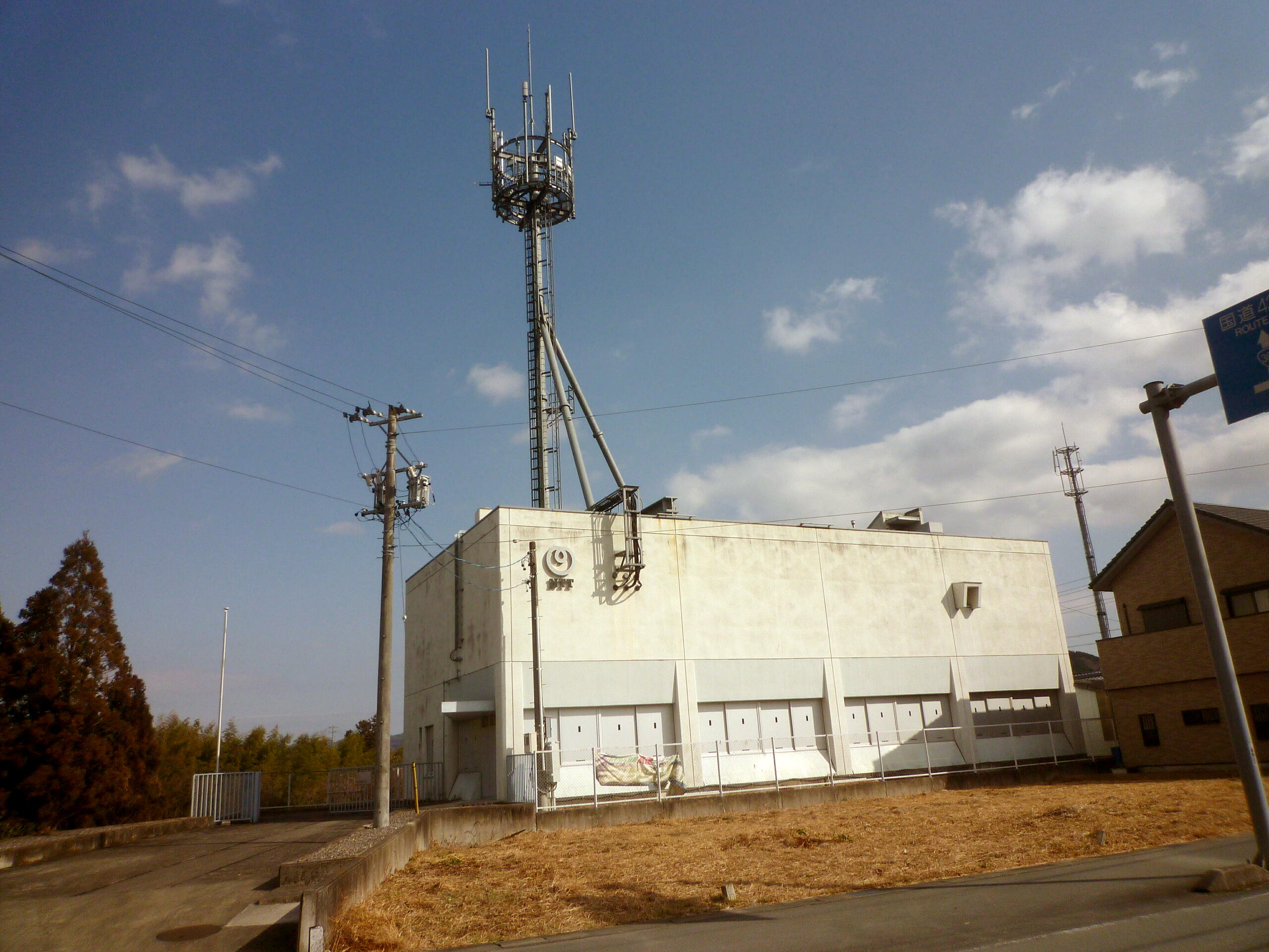 The "NTT Seiwa Telephone Exchange Building" in Asagara, Taki Town, Taki District, Mie Prefecture, Japan.